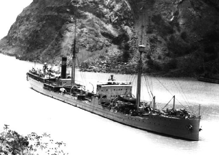 The U.S. Navy fleet oiler USS Neches (AO-5) transiting the Panama Canal, date unknown. US Navy photo.